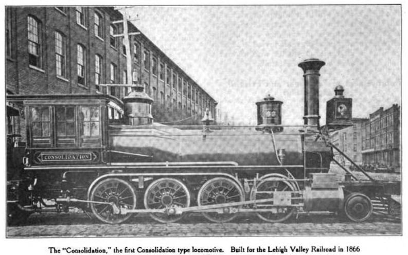 The original Consolidation locomotive designed by Lehigh Valley Railroad Master Mechanic Alexander Mitchell. Built in 1866 by Baldwin Locomotive Works for the Lehigh Valley Railroad. LVRR locomotive #63.